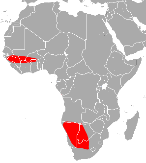 Dent's Horseshoe Bat (Rhinolophus denti) range